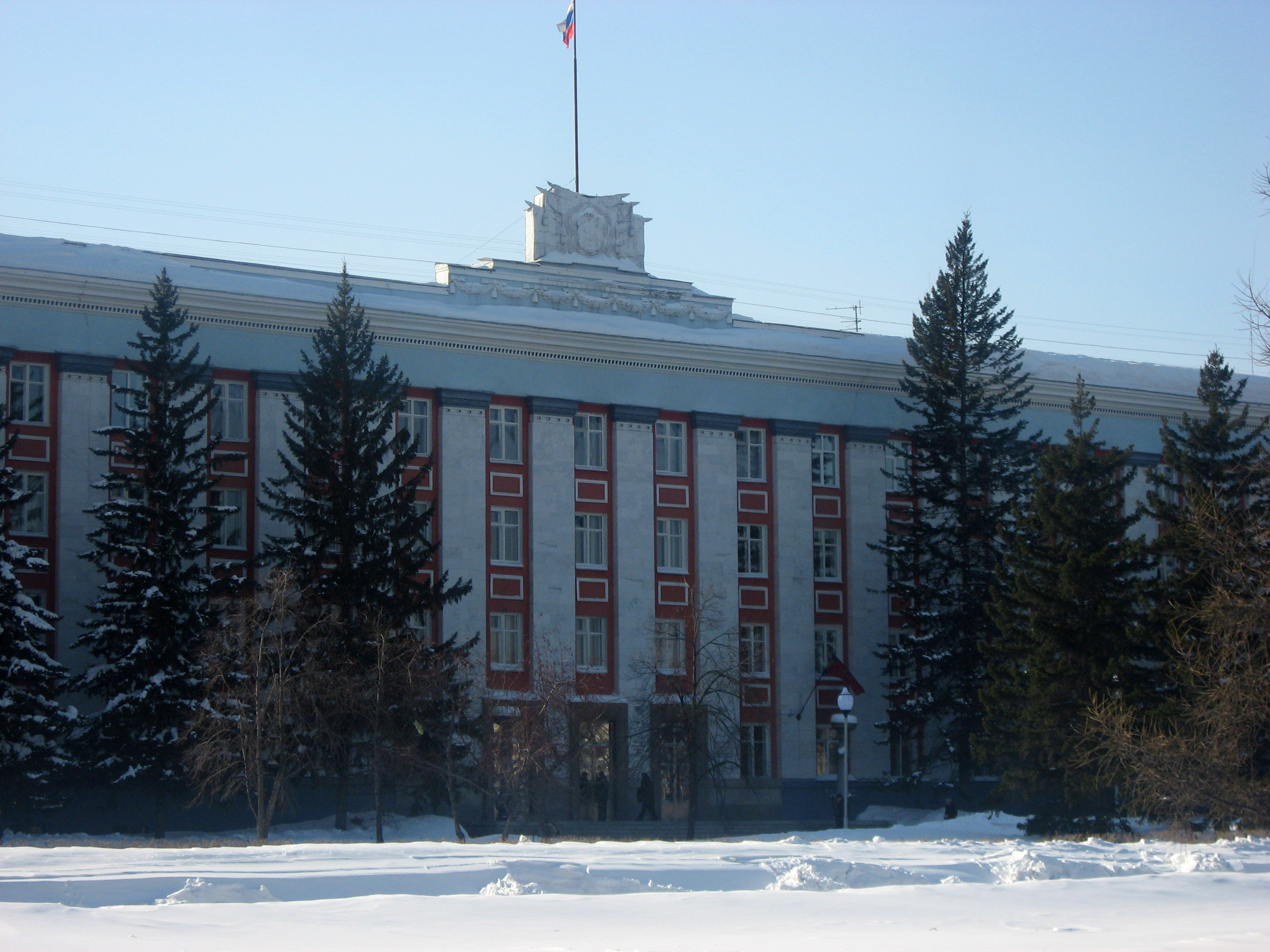 Administration of the Altai Region (Altai Kraj)